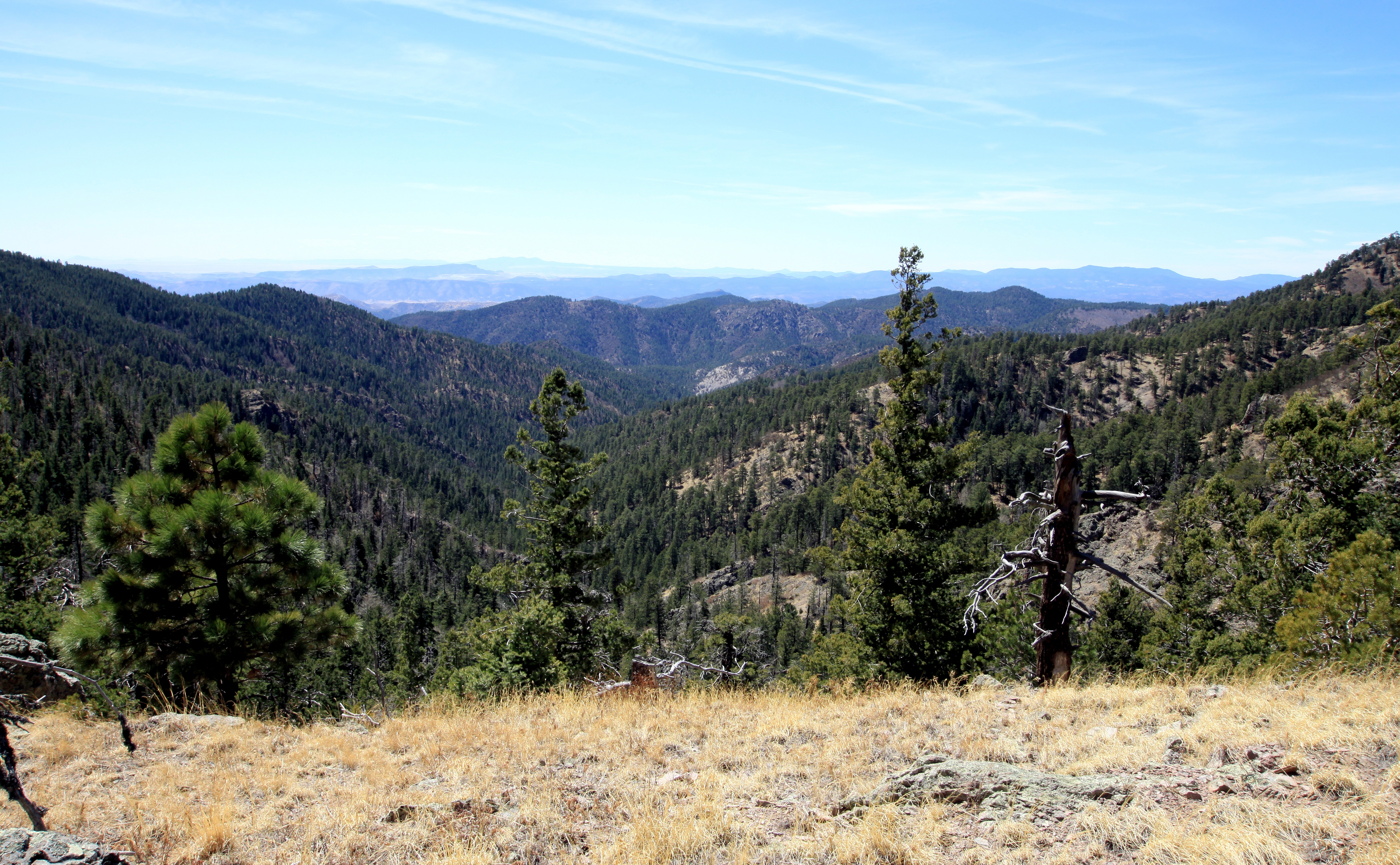 Gila National Forest in New Mexico